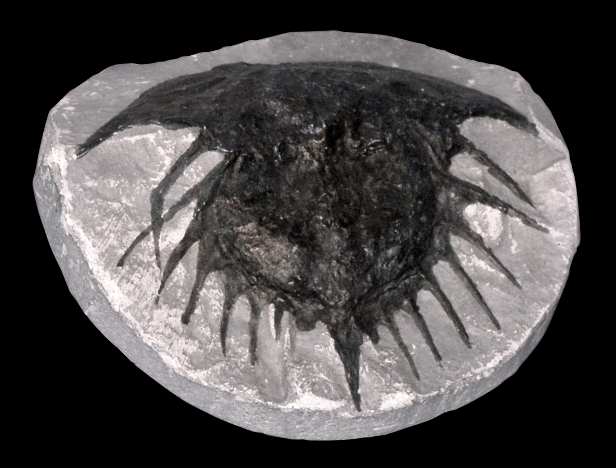 Fossils of Prestwichia anthrax from Coal Brook Dale, England, on display at Gallery of Paleontology and Comparative Anatomy, Paris.